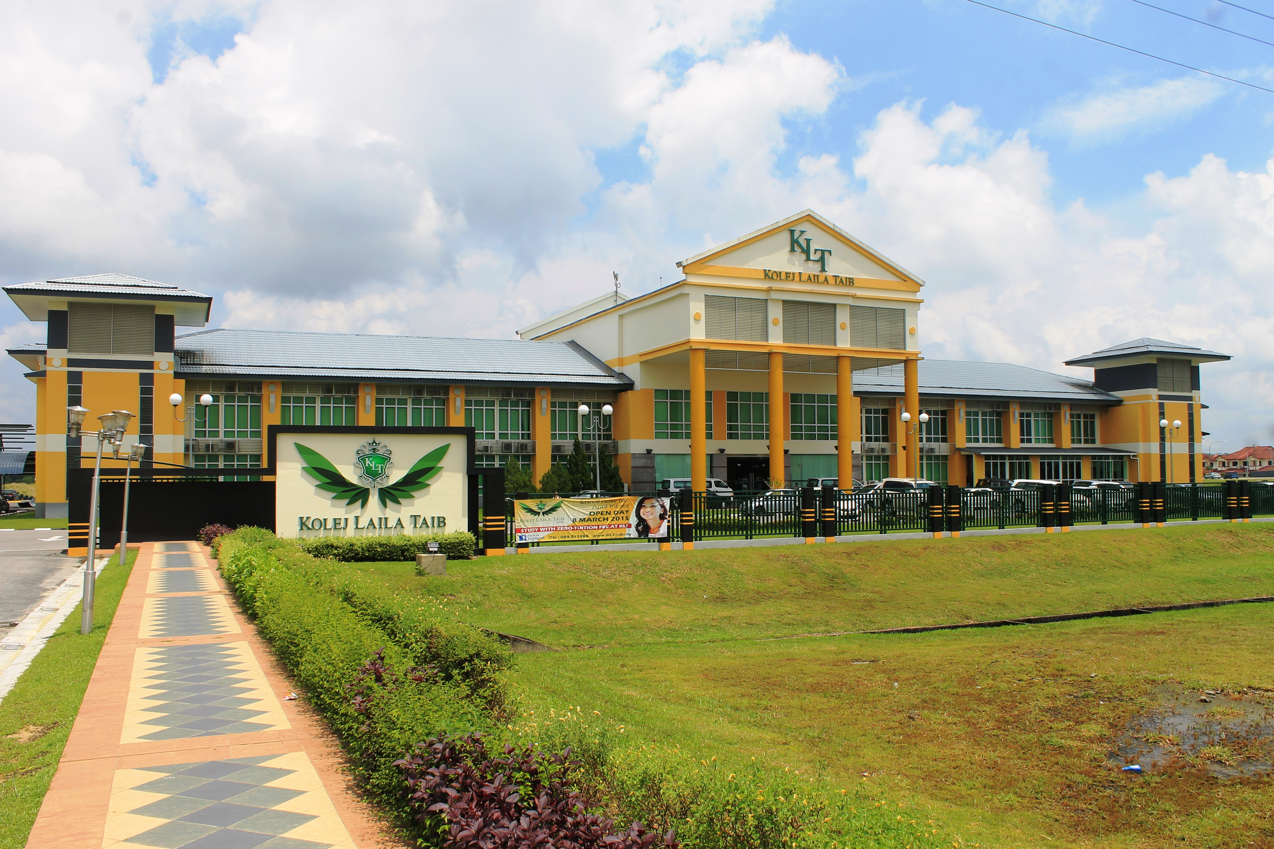 Laila Taib College, Sibu, Sarawak, Malaysia.